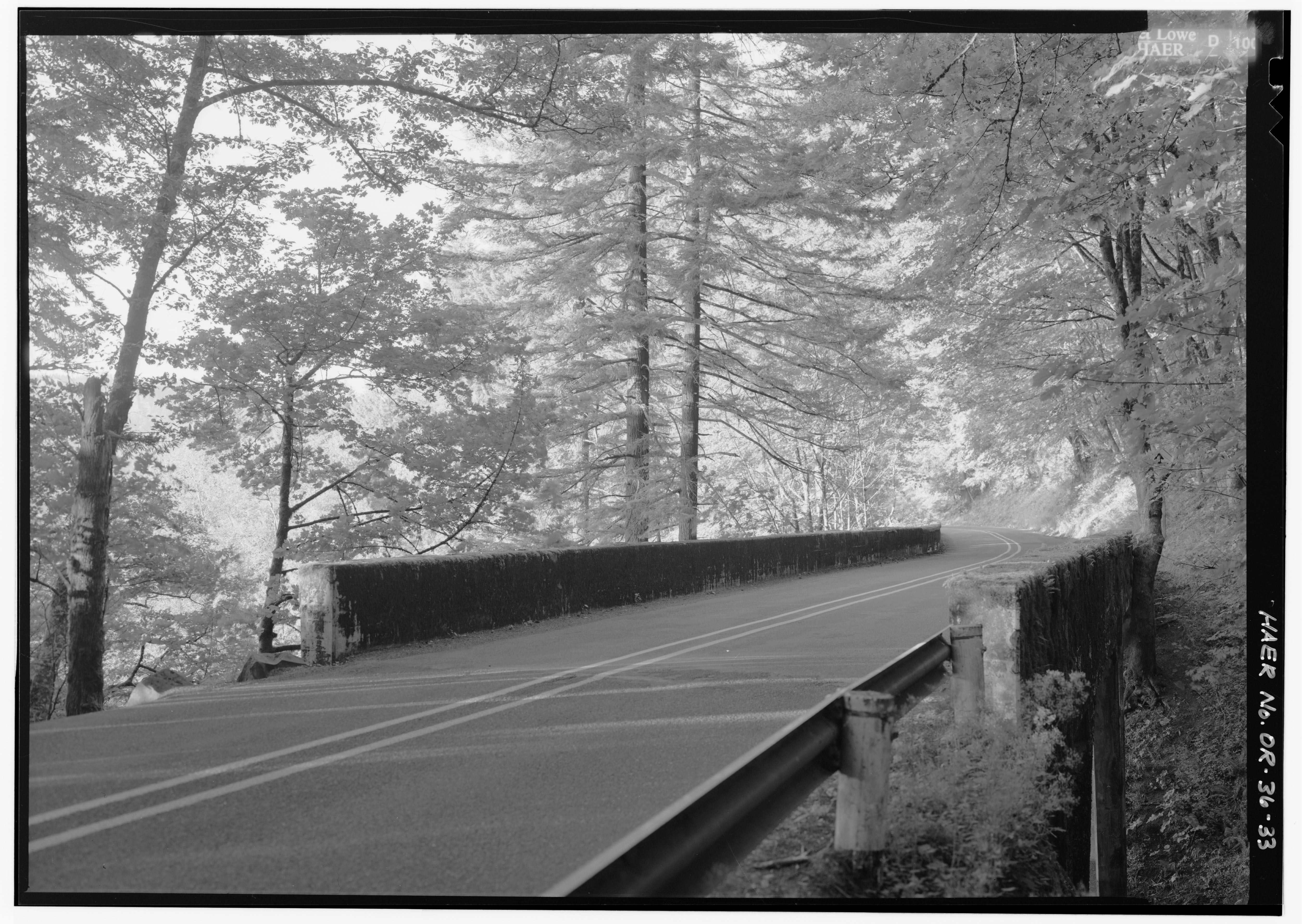 BRIDAL VEIL FALLS BRIDGE, WESTERN PORTAL LOOKING NORTHEAST. SAME PHOTO AS HAER No. OR-36-E-1.